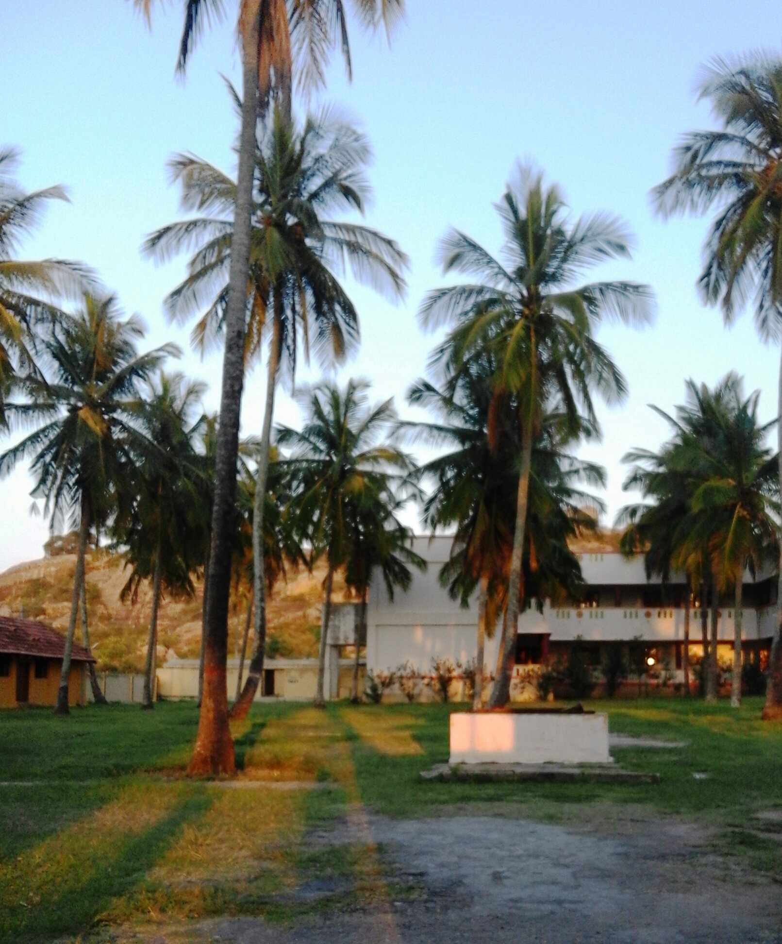 Mandya district, Karnataka state, India.